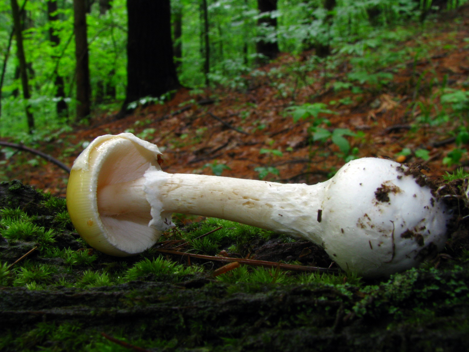 Amanita praecox Y. Lamoureux nom. prov. Location: Strouds Run State Park, Athens, Ohio, USA Observation Notes: This little mushroom was growing under pine and maple. I found it while hiking in the rain. My first Amanita of 2010 :) For more information about this, see the observation page at Mushroom Observer.